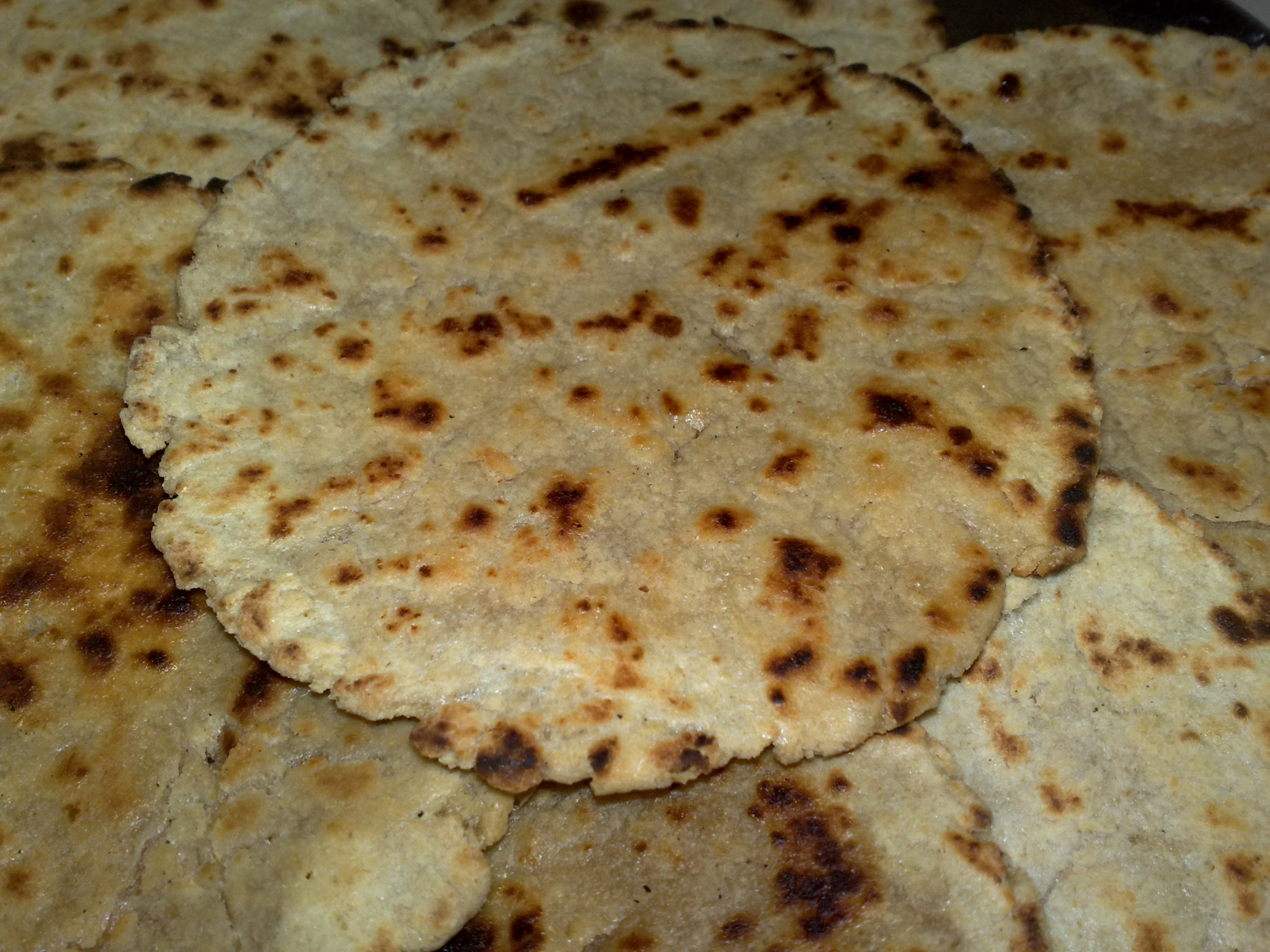 Bhakri is a type of Indian bread made from wheat most of times. It can also be made from Jowar , Bajra etc. Sometimes it is made bit crispy to have with tea or pickle.